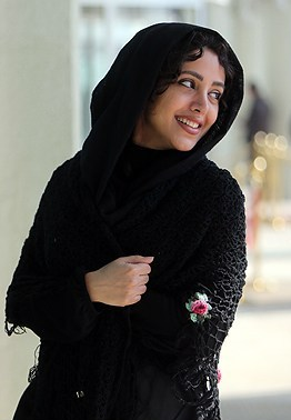 هنگامه حمیدزاده در سی و دومین جشنواره بین المللی فیلم فجر